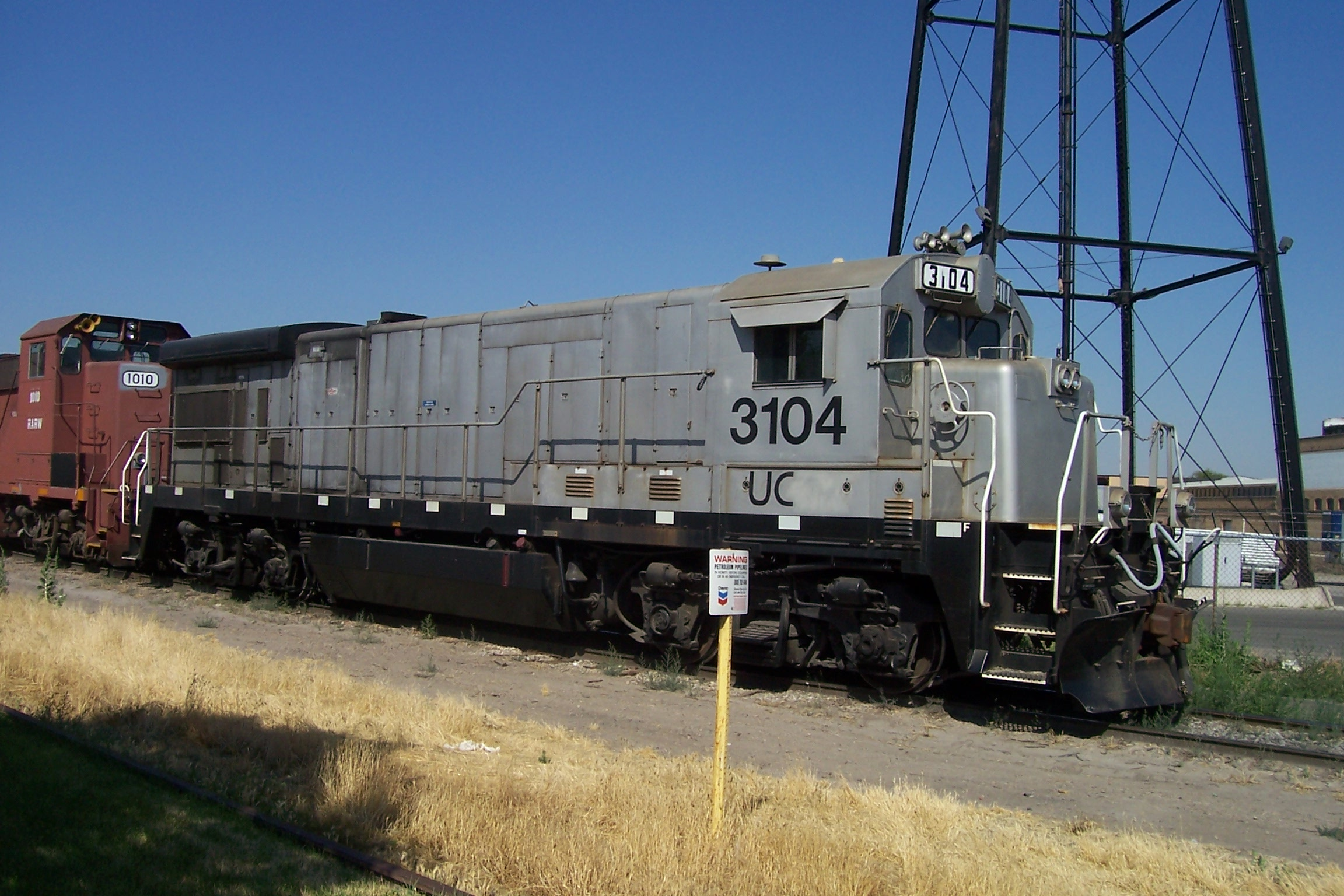 Utah Central Railway #3104 (GE B23-7) leads Rarus Railway #1010 (EMD GP39-2).